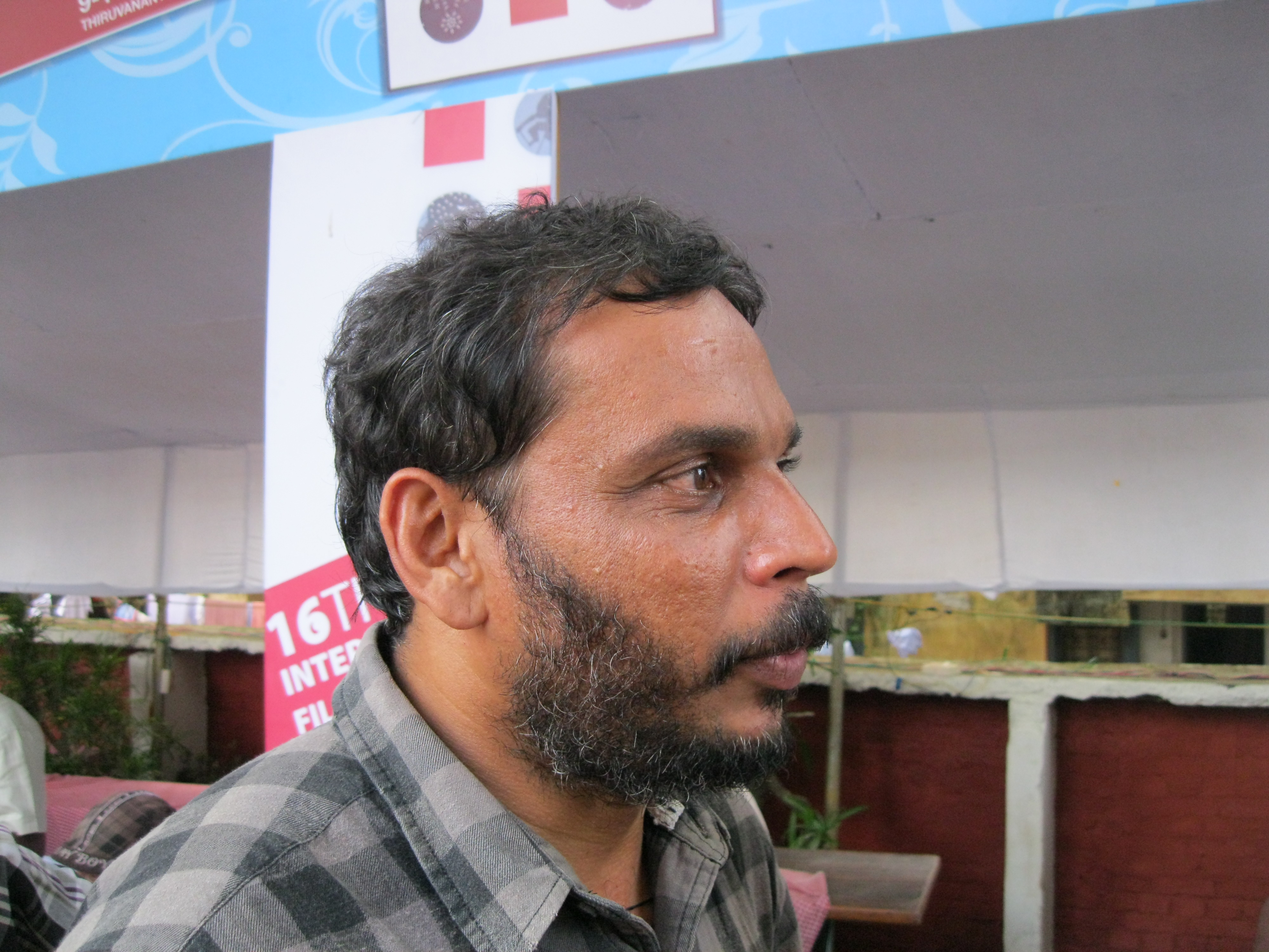 film director, adhimadhyantham, malayalam